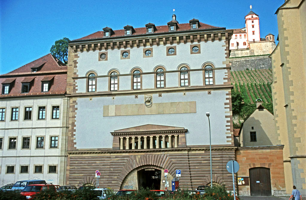 The former Women's Penitentiary in Würzburg, Germany, designed by Peter Speeth and erected 1809-10.